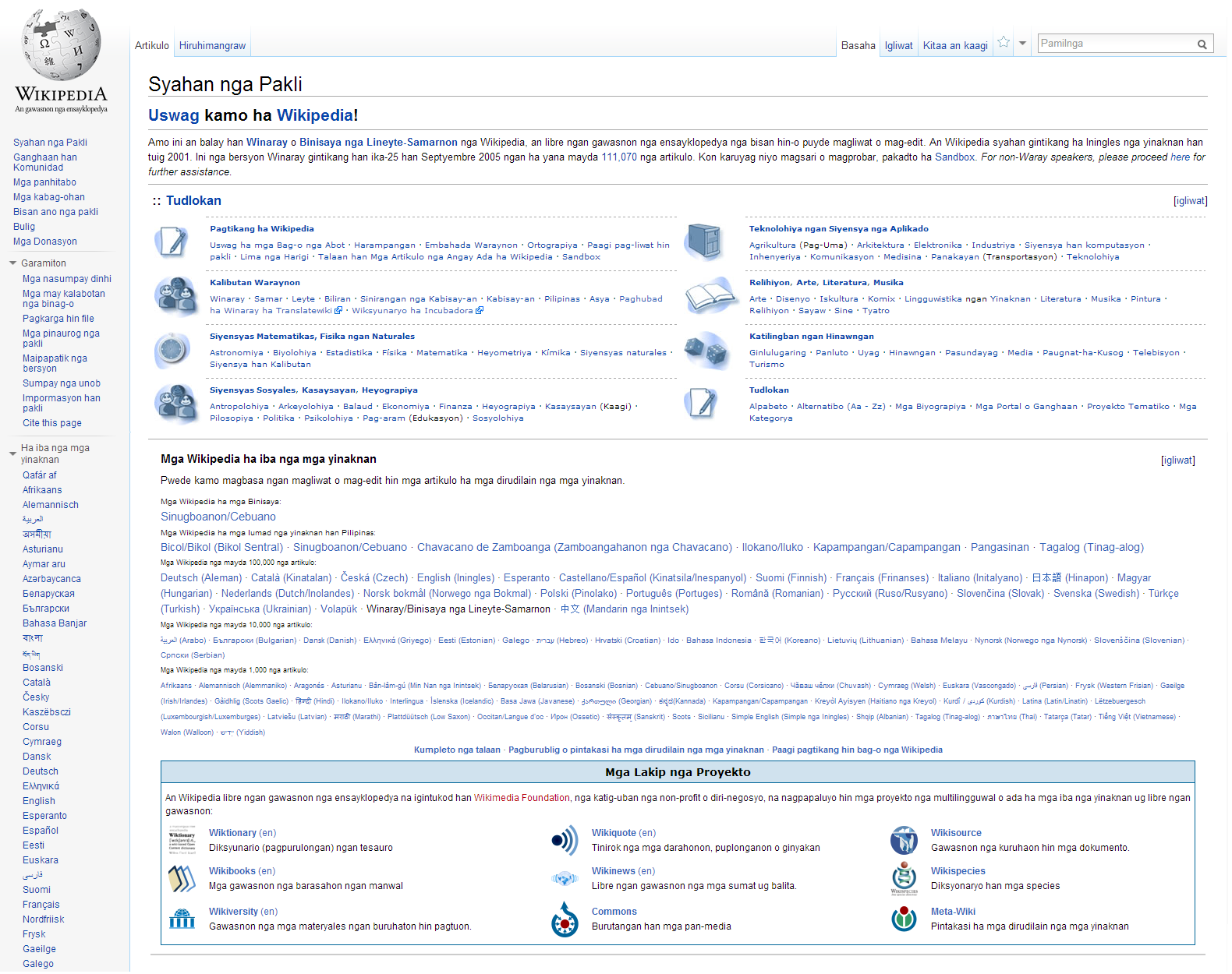 Winaray or Waray-Waray Wikipedia main page 2012-11-15